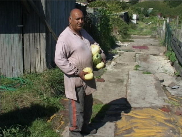 Photo of Merry Hills Allotments next to Black Patch Park taken by Sibadd 23:16, 11 March 2006 (UTC) in summer 2004